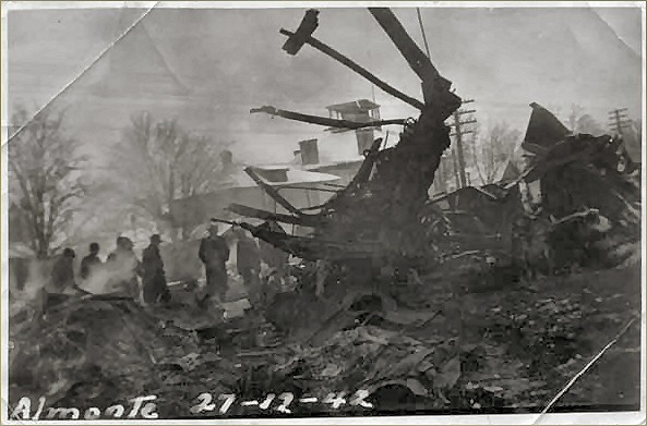 Collision between troop train and passenger train, Almonte, Ontario, Canada. December 1942.